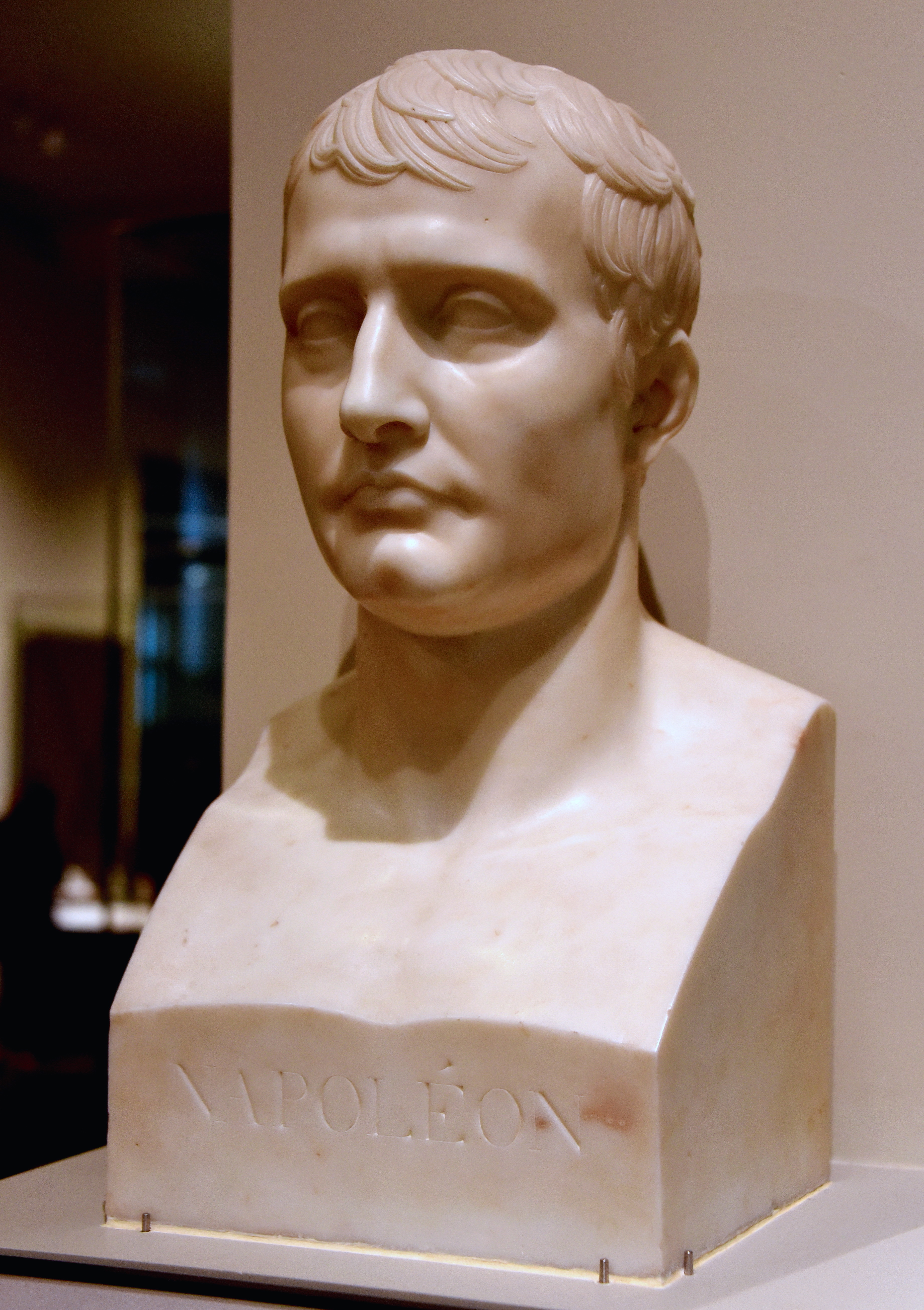 Bust of Napoleon I, 1807-1809 CE. Marble, from Carrara, Italy. After Antoine-Denis Chaudet. The Victoria and Albert Museum, London. Given by Sir Rennie Maudslay Keeper of the Privy Purse and Treasurer to the Queen.